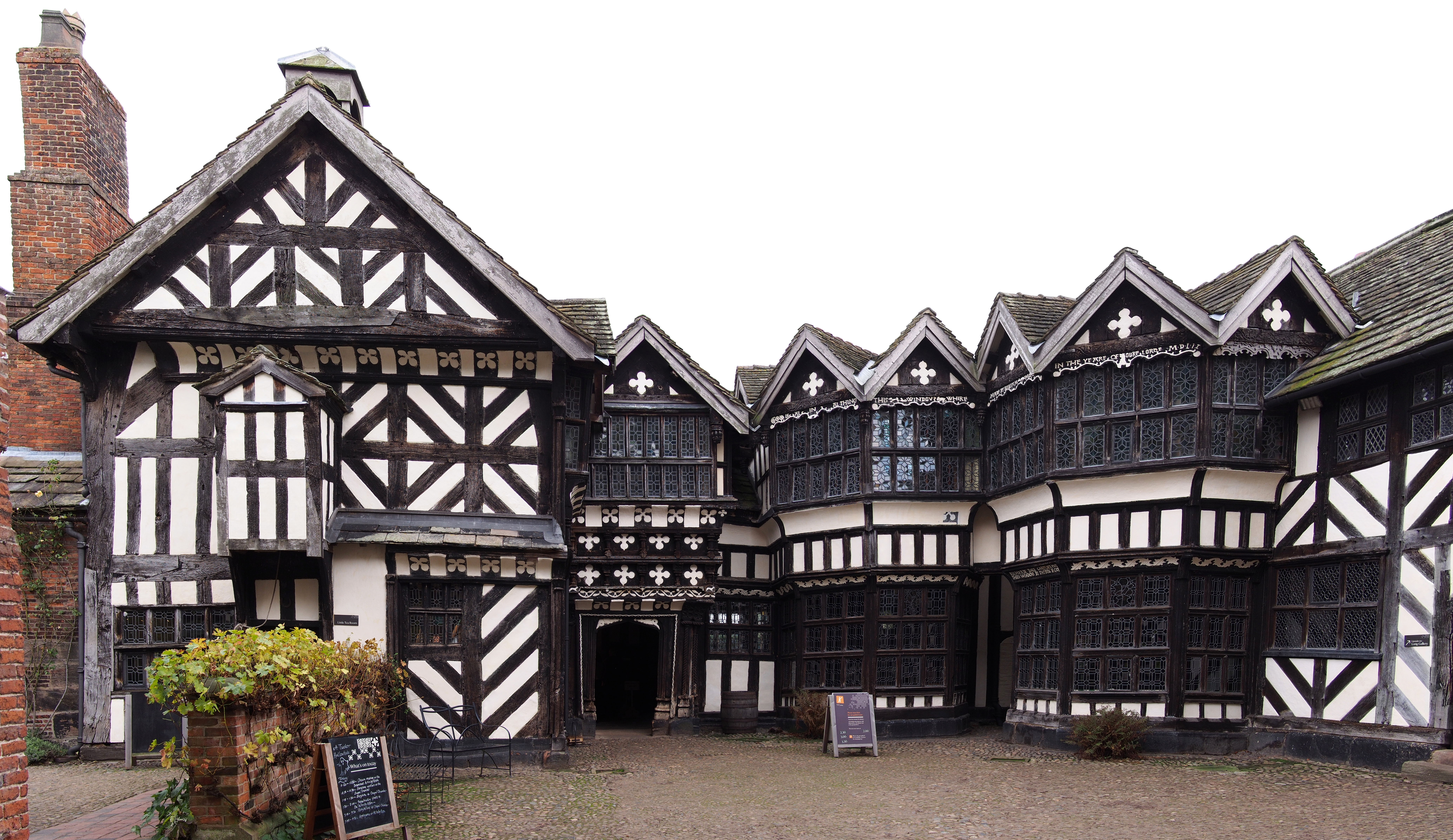 Courtyard of Little Moreton Hall, Cheshire, UK